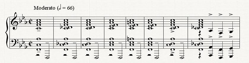 Part of the score of the Piano concerto No. 2 of Sergei Rachmaninoff. Music free from copyright as copyright is expired. Created in Sibelius by myself so as to prevent any difficulties arising from copyrights made by individual publishers.